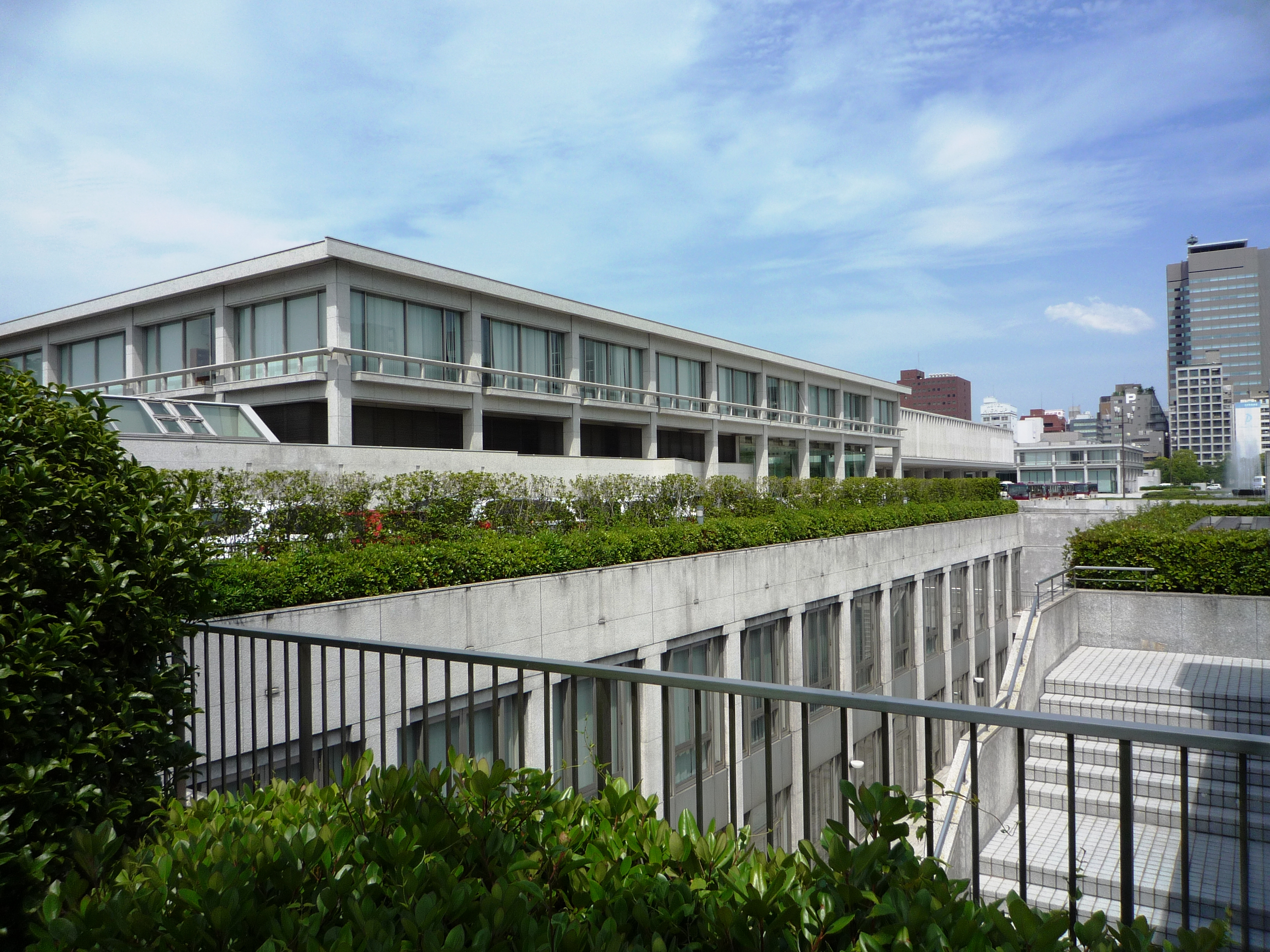 Hiroshima_Peace_Memorial_Museum_and_International_Conference_Center_Hiroshima (広島平和記念資料館及びja:広島国際会議場)